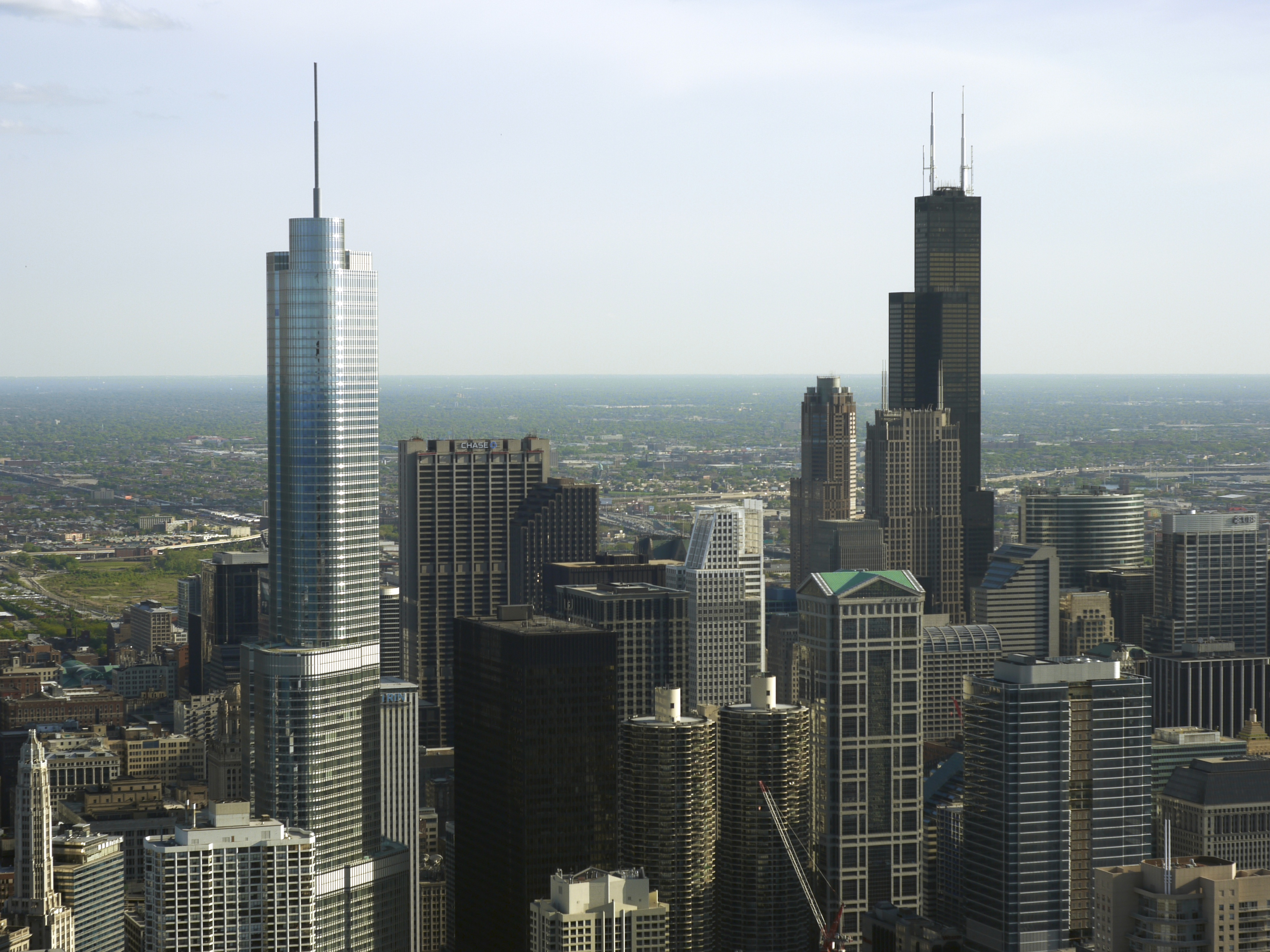 Shot with a Voigtlander 40mm F1.4 Nokton manual focus lens. The adapter is an RJ Camera M-mount to micro 4/3 adapter.